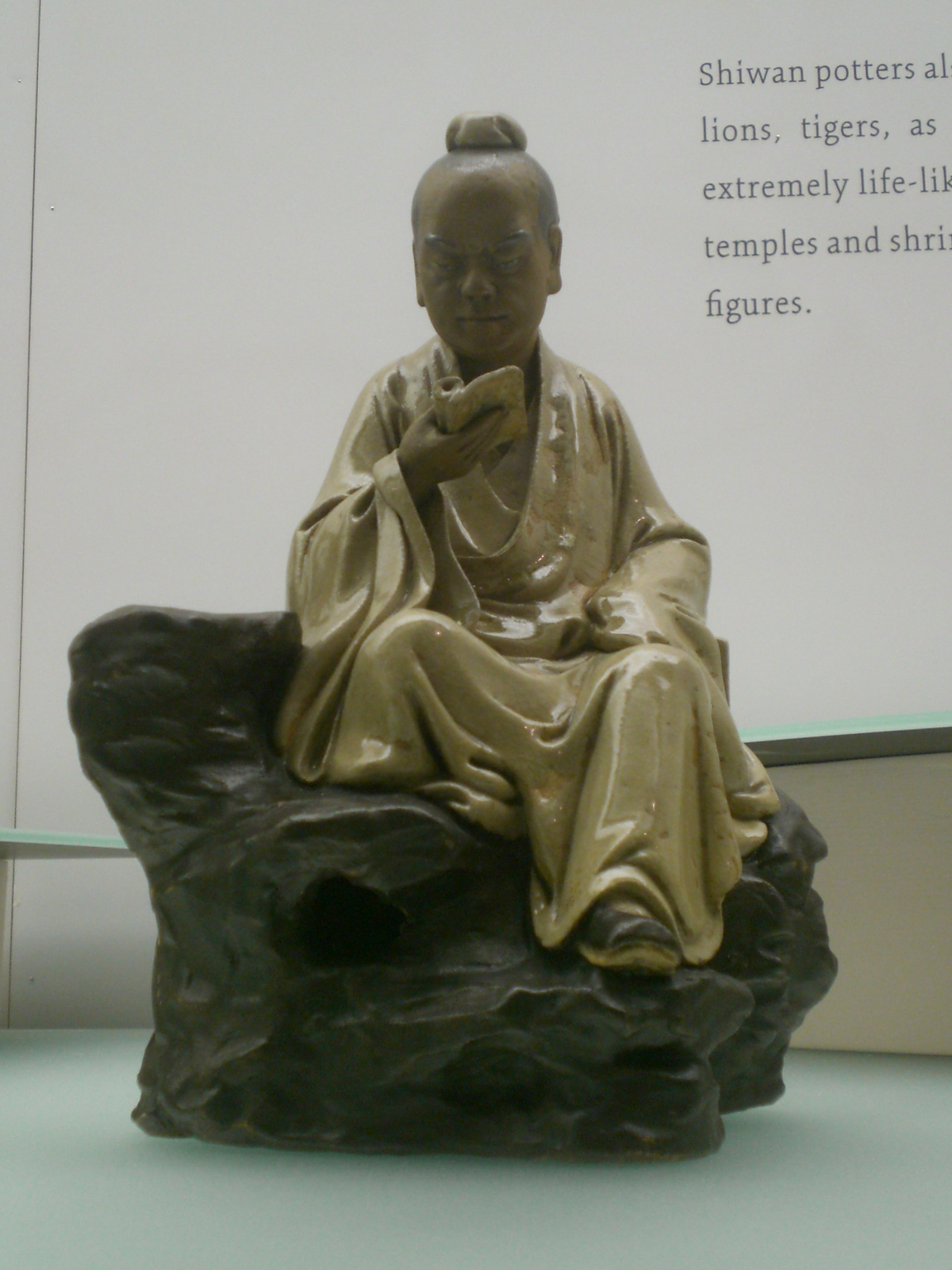 尖沙咀 香港藝術館 中國男性 藝術中的中國人物 雕塑 男性雕塑 中國軍事家 中國封建社會的軍事家 張良